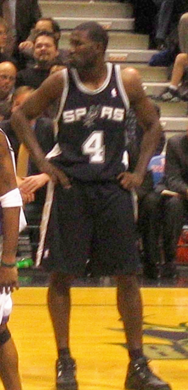 Michael Finley sets up for an opponent's free throw.